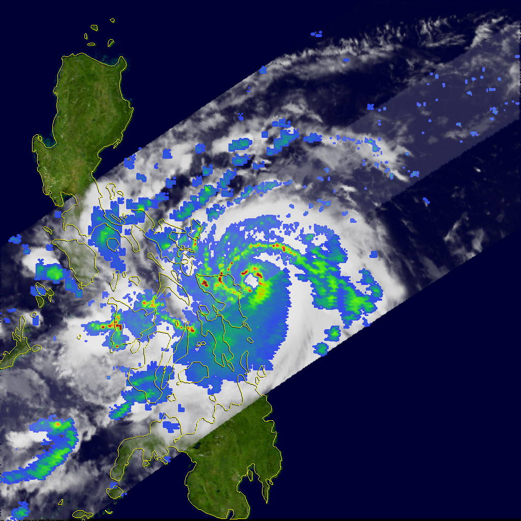 Typhoon Xangsane (known as Milenyo in the Philippines) brought strong winds and heavy rain to the central Philippines after making landfall on the island of Samar. The storm was reported to have had winds gusting to 150 kilometers per hour (93 miles per hour) as it made landfall. Xangsane began as a tropical depression (area of low air pressure) on September 25, 2006, in the western Philippine Sea just 320 kilometers (200 miles) east of the central islands. As Xangsane headed west-northwest towards the central Philippines, the storm system at first grew only slowly, remaining a tropical storm at the start of the day on September 26. However, as it was nearing Samar, Xangsane began to intensify rapidly into a Category 2 typhoon. This image of Typhoon Xangsane shows the storm system at 1:36 p.m. (21:36 UTC) on September 26, as observed by the Tropical Rainfall Measuring Mission (TRMM) satellite. It shows Xangsane bearing down on northern Samar in the central Philippines. Xangsane had a complete eyewall (ring of clouds around the eye), with moderate to heavy rain (green ring with areas of red) surrounded by spiral rain bands. These features show the well-developed circulation typical of a mature tropical cyclone. At the time of these images, Xangsane was estimated to have had sustained winds of 120 kilometers per hour (75 mph), making it a minimal Category 1 typhoon. However, the storm was in the process of intensifying, and it became a Category 2 storm just hours later as it drew closer to Samar. The TRMM satellite was placed into service in November 1997. From its low-earth orbit, TRMM provides valuable images and information on storm systems around the tropics using a combination of passive microwave and active radar sensors, including the first precipitation radar in space. TRMM is a joint mission between NASA and the Japanese space agency, JAXA.